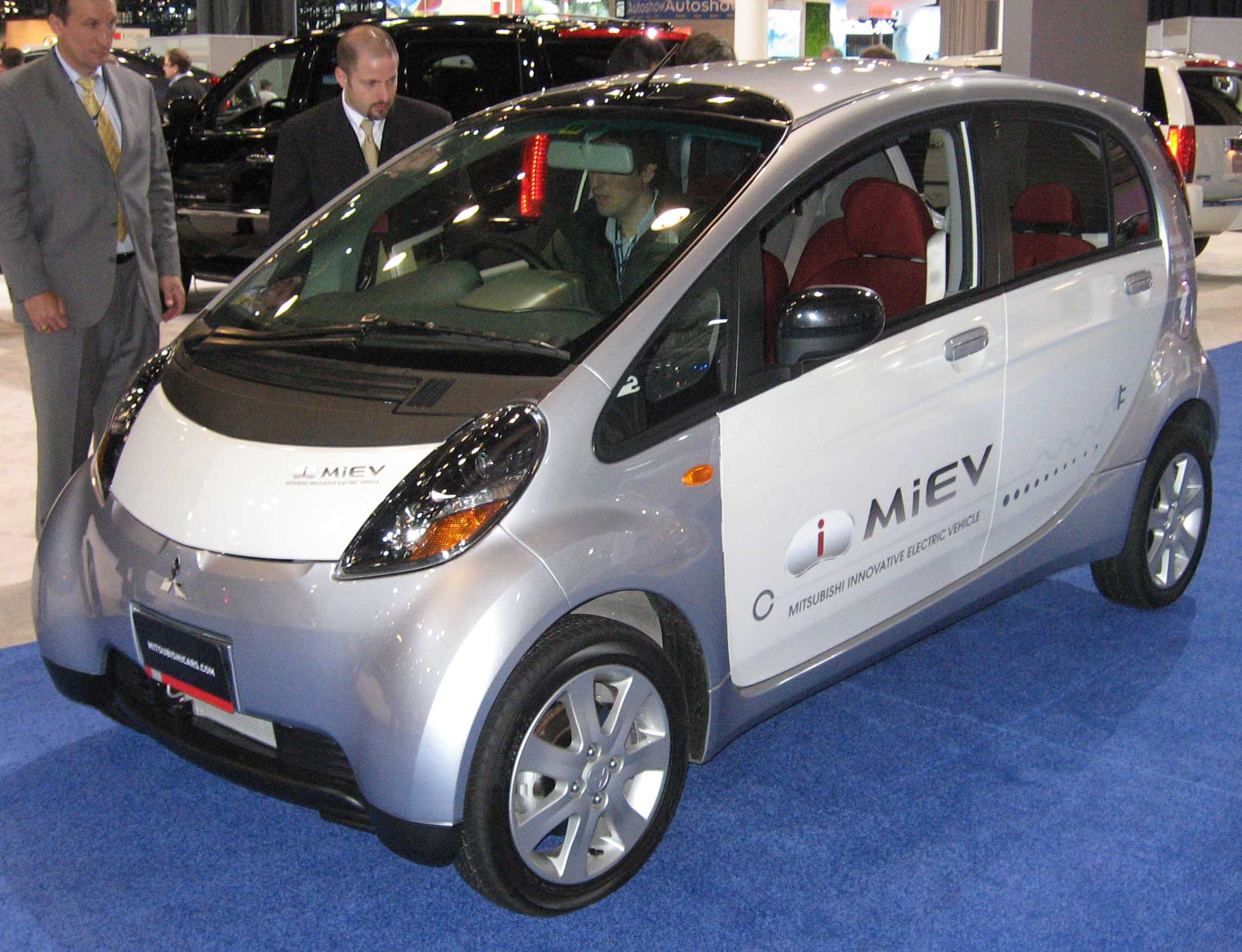 Mitsubishi i MiEV photographed at the 2008 New York Auto Show.